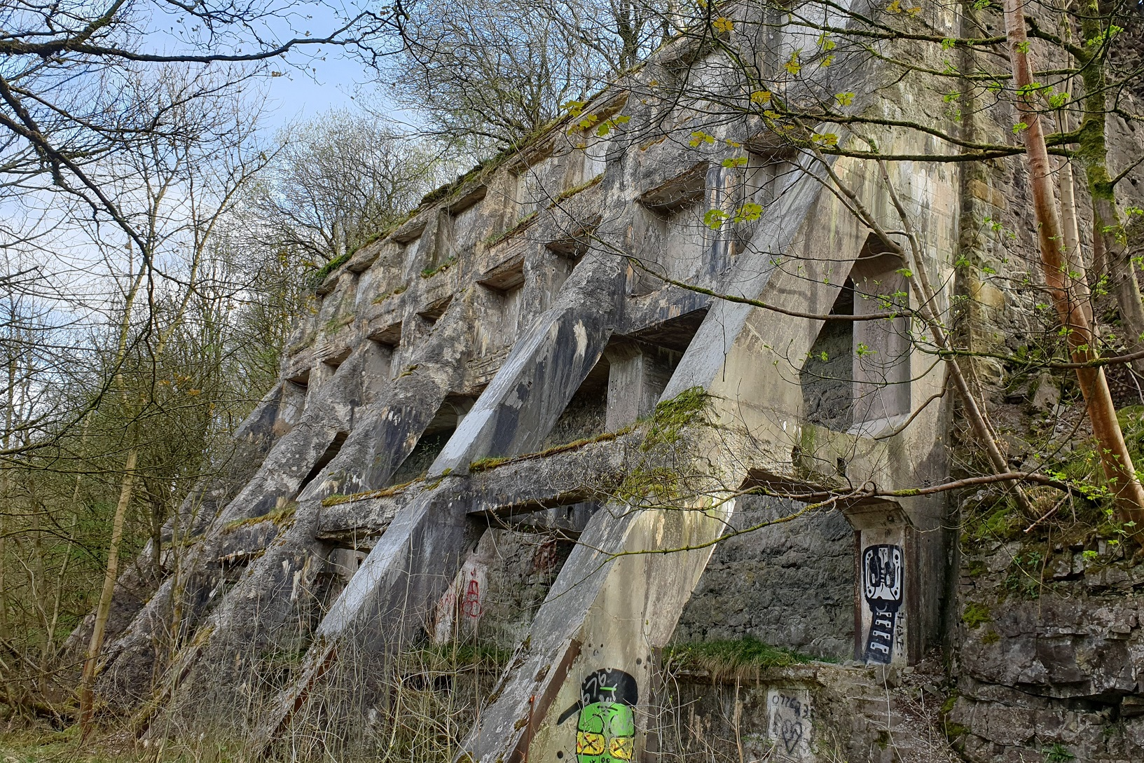 Lime Kilns at Cowdale Quarry near Buxton in Derbyshire